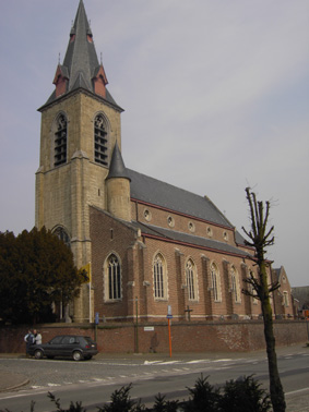 Church of Saint Bartholomew in Hillegem. Hillegem, Herzele, East Flanders, Belgium